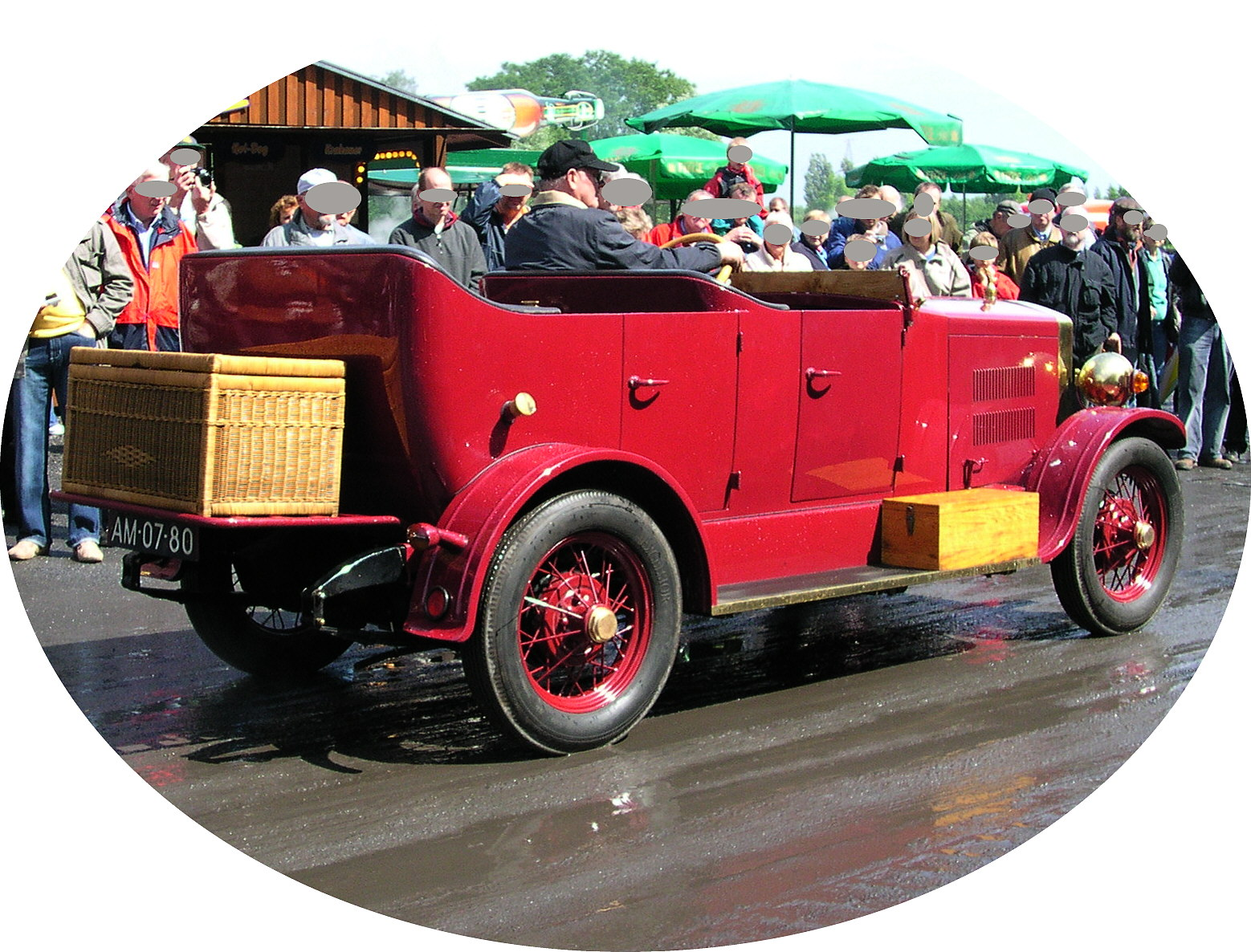 5th steam festival in Bochum, Germany 2007. Doble steam car